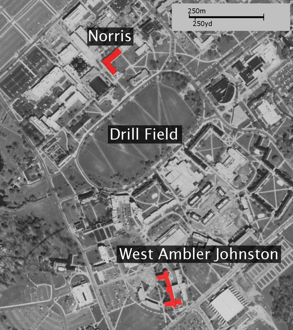 Map of Virginia tech with Norris and West Ambler Johnston Hall highlighted. Basemap from TerraServer (USGS).